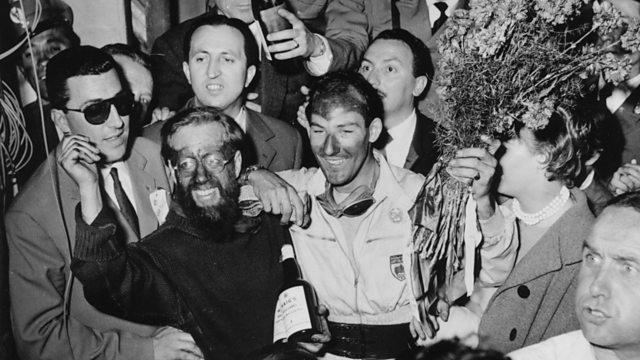 Jenkinson and Moss wins 1955 Mille Miglia